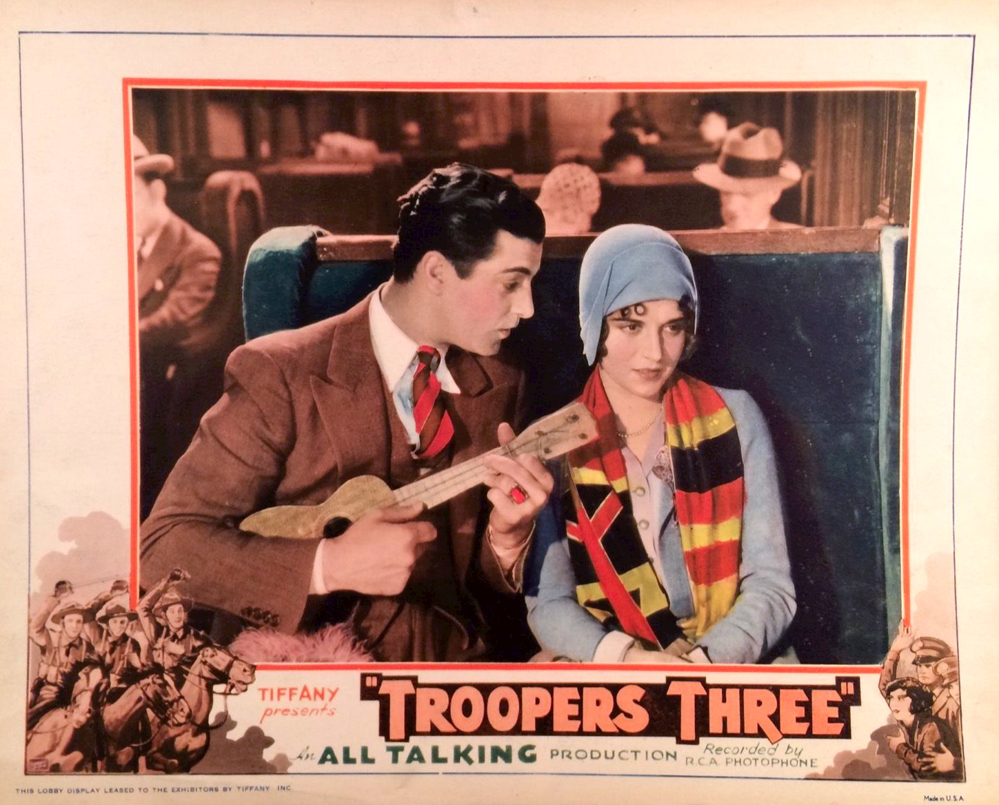 Lobby card for the American comedy film Troopers Three (1930). There are no copyright marks on the card. At lower left is This lobby display leased to the exhibitors by Tiffany Inc. At lower right is Made in USA.